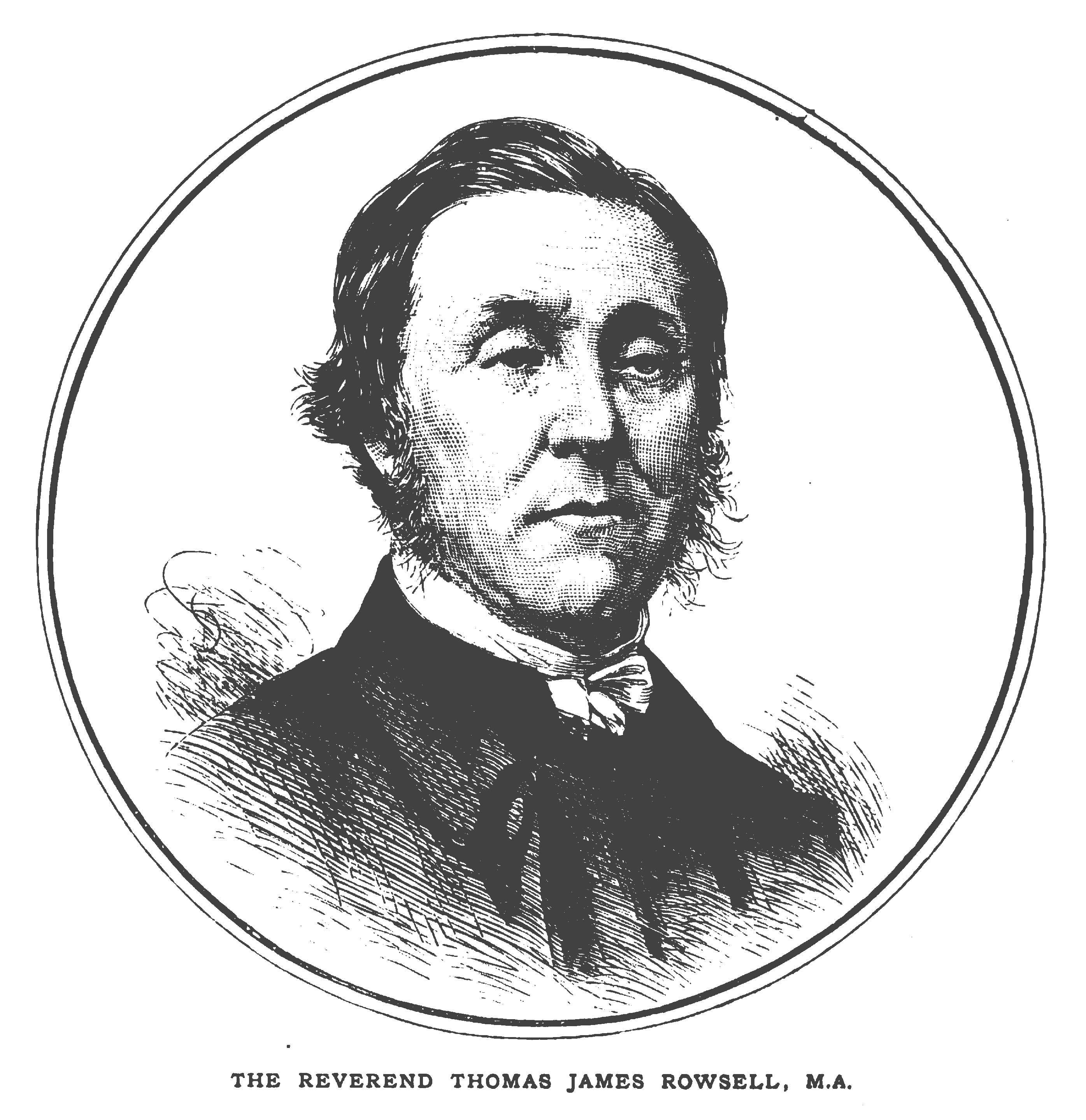 Thomas Rowsell was a Canon of Westminster from 22 November 1881–23 January 1894